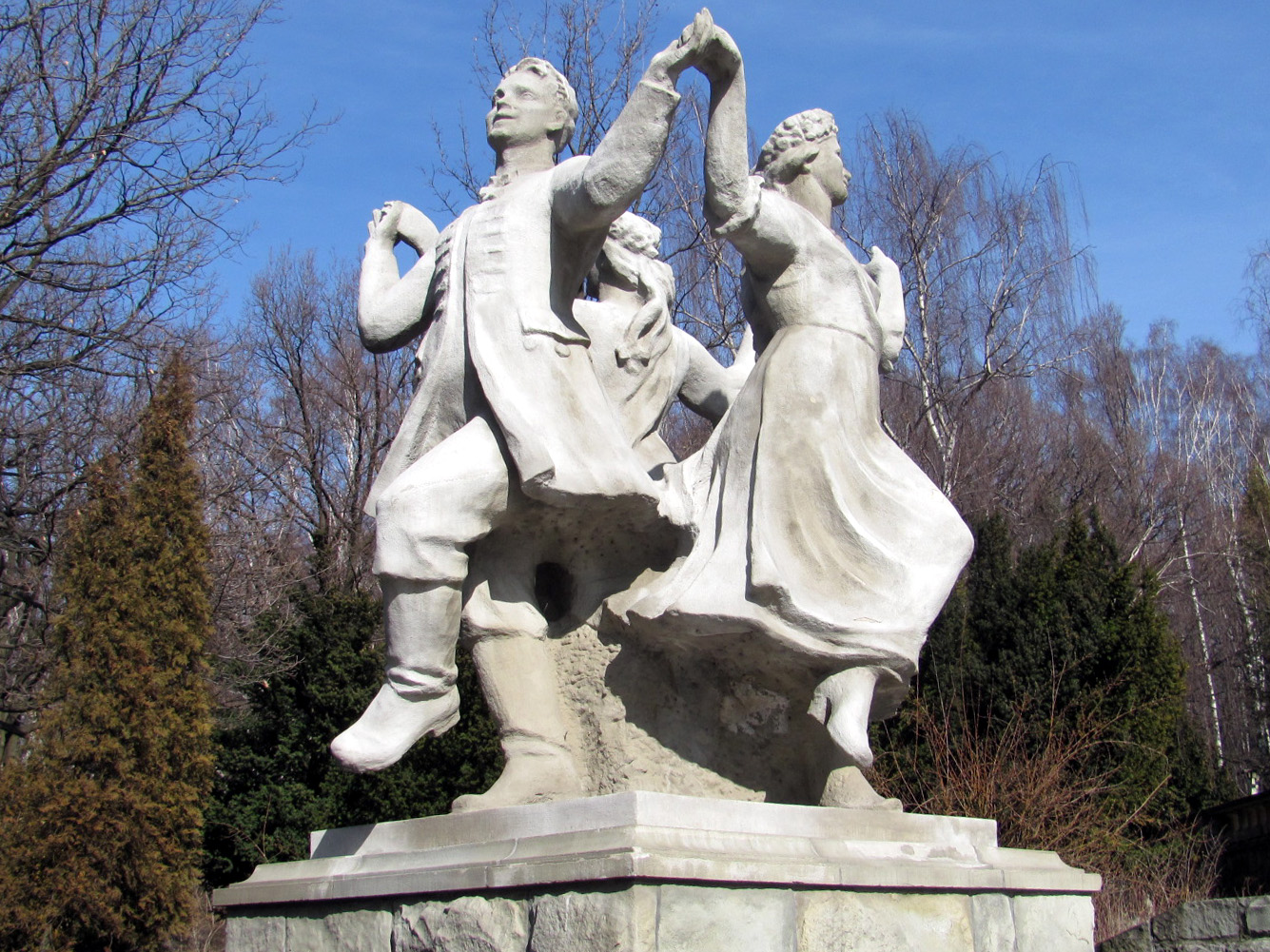 WPKiW(Silesian Central Park) in Chorzów, Poland. Staues at the entrance of Krąg Taneczny (dance circus) on the left.